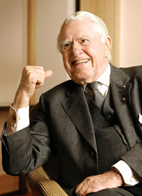 Willi R. Aengevelt